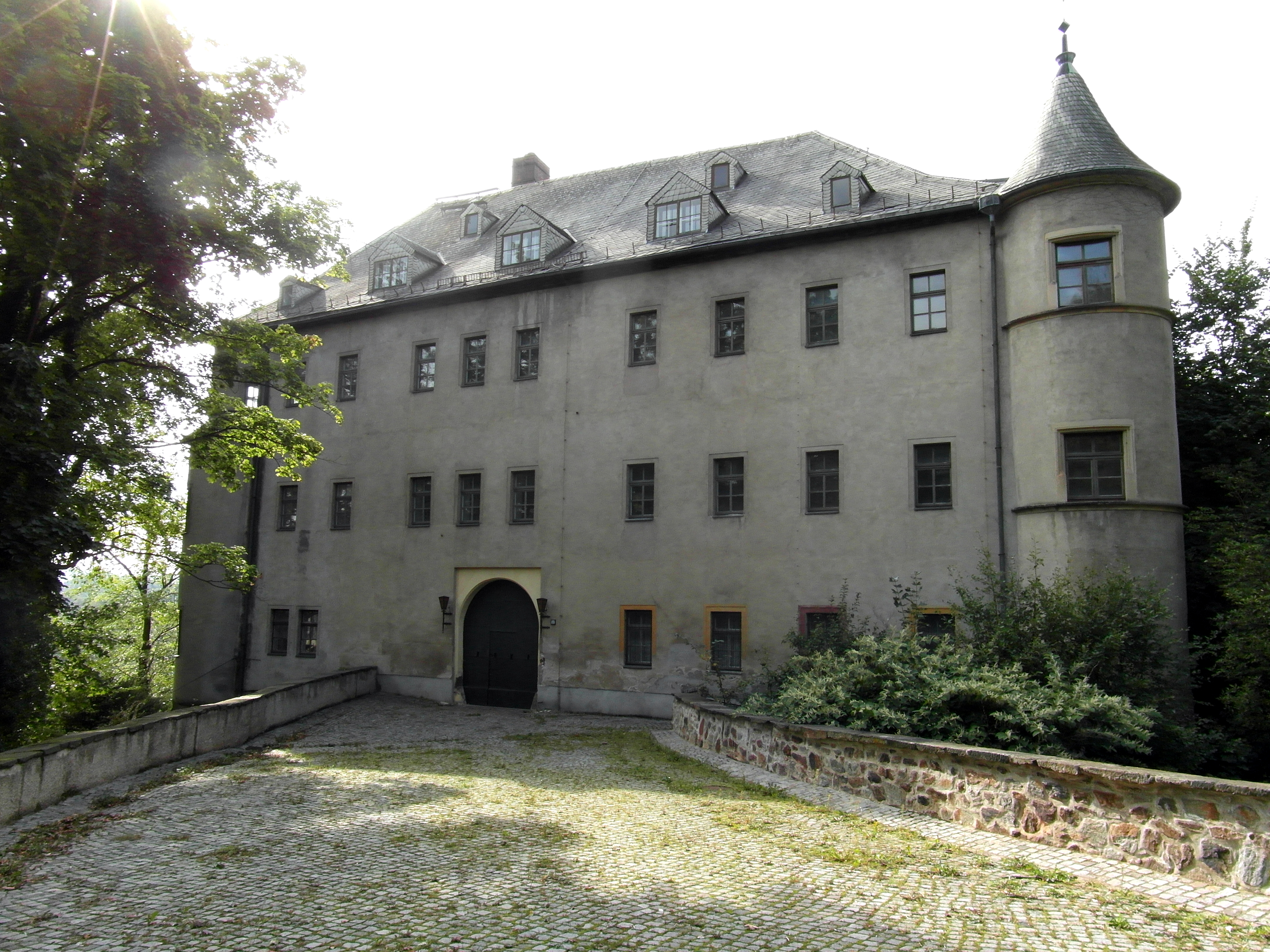 Main entrance of the castle in Lichtenstein.